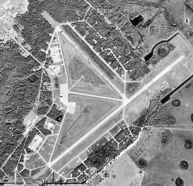 USGS digital orthophoto of Avon Park Air Force Range in Florida, United States